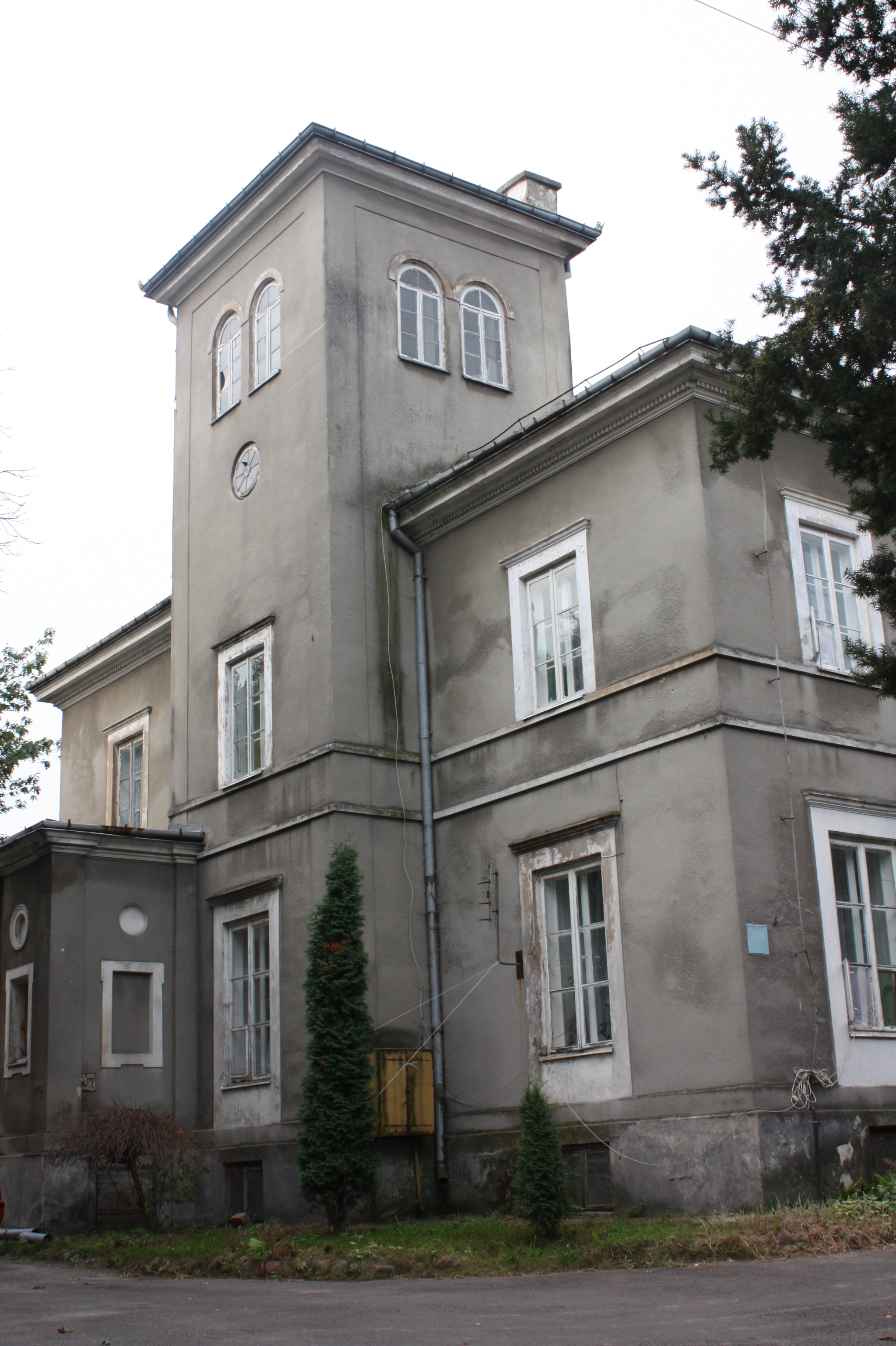 Palace in Płochocin